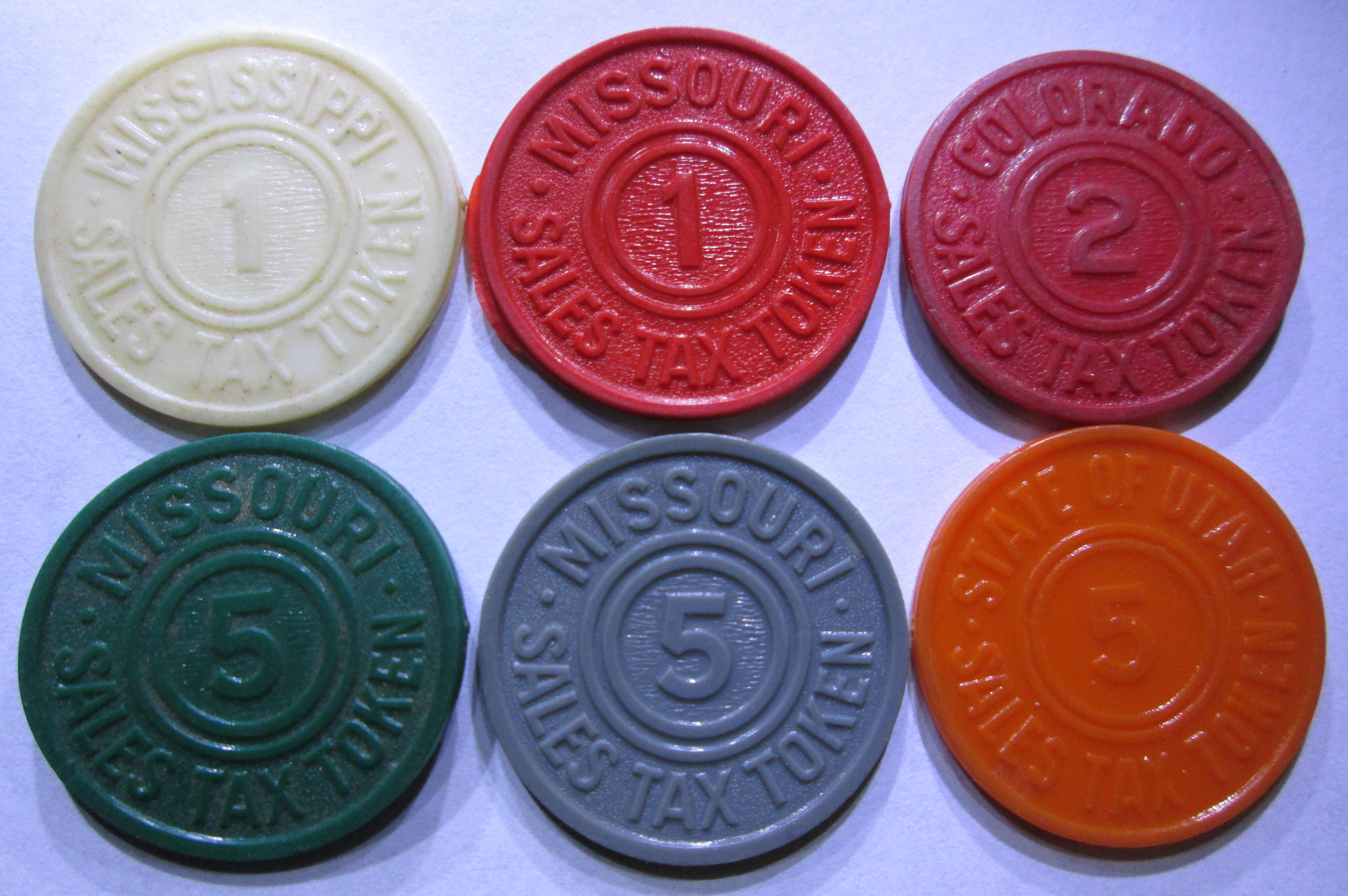 Various plastic sales tax tokens from the American states of Mississippi, Missouri, Colorado, and Utah.